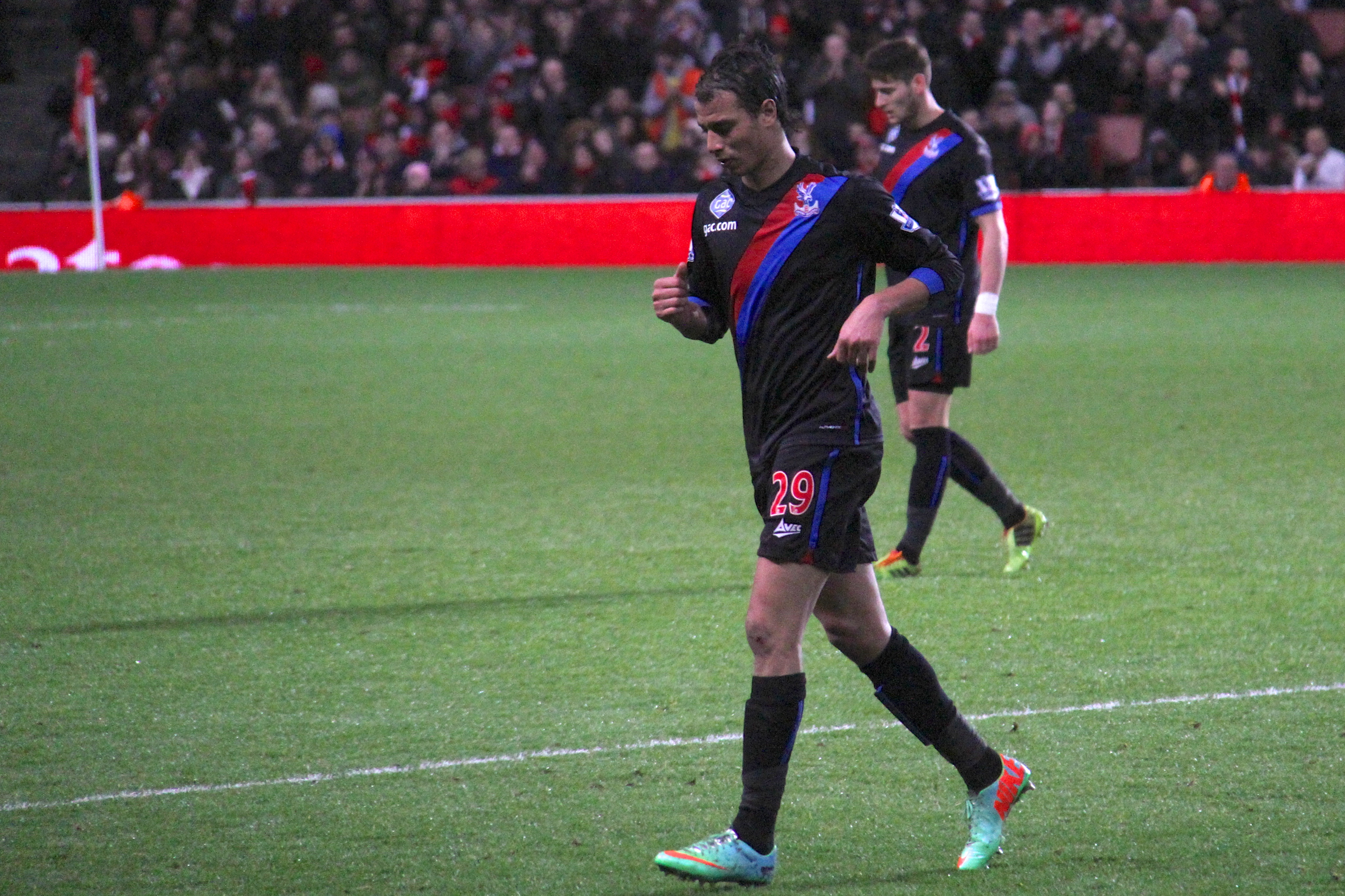 Marouane Chamakh playing for Crystal Palace in 2014